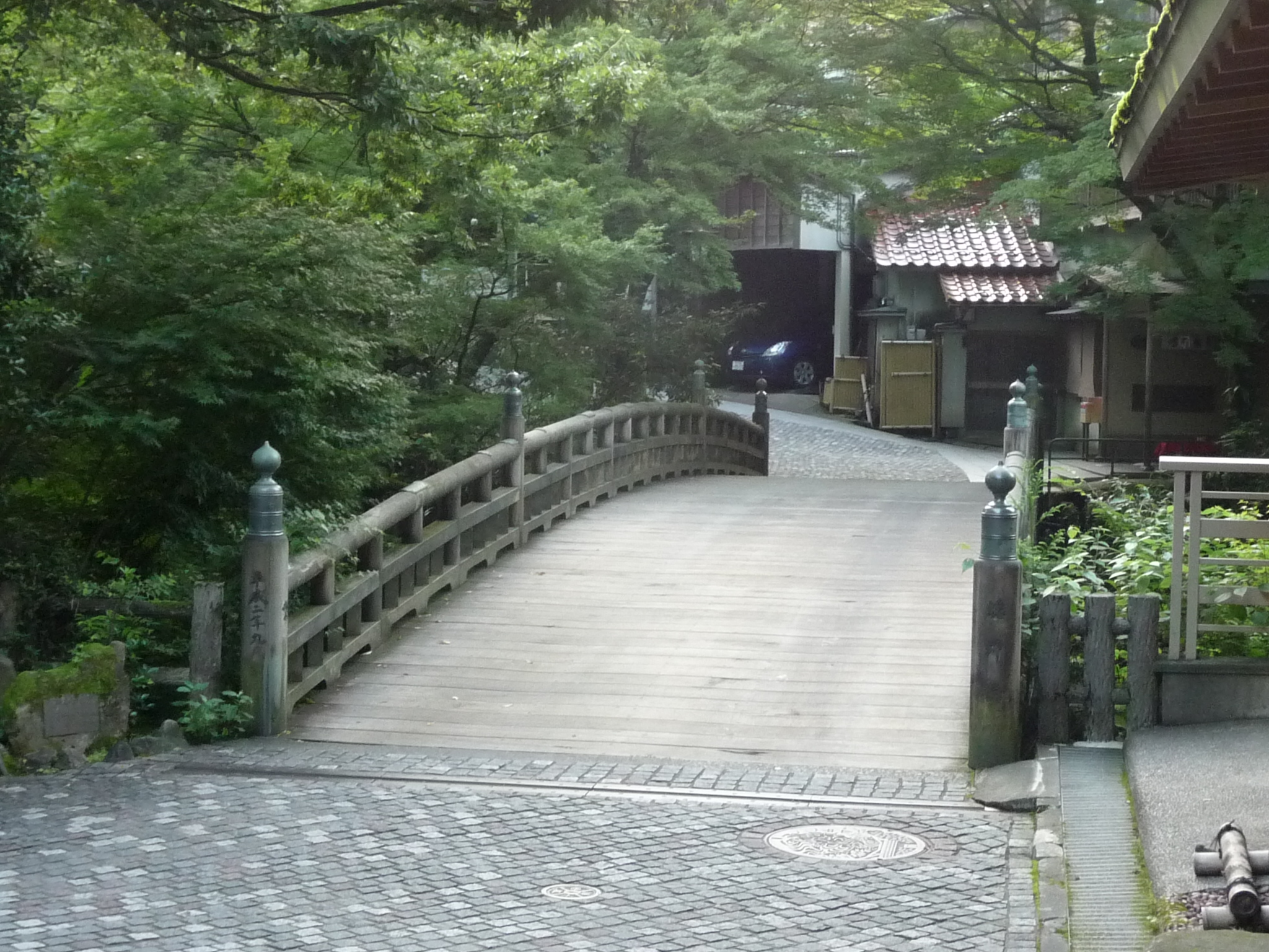 Korogi bashi (bridge) (こおろぎ橋) in Yamanaka onsen (山中温泉)